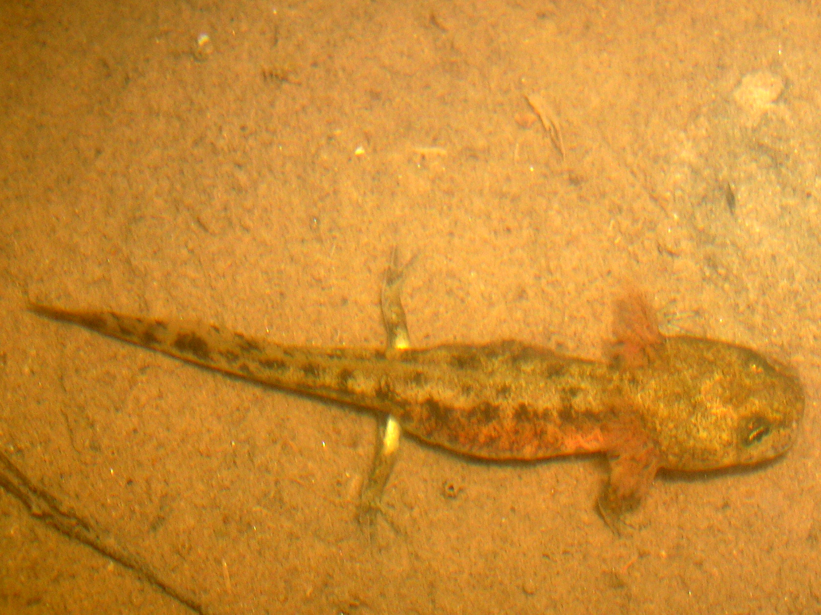 Larva of Salamandra salamandra in small stream at the Bunderbos Netherlands